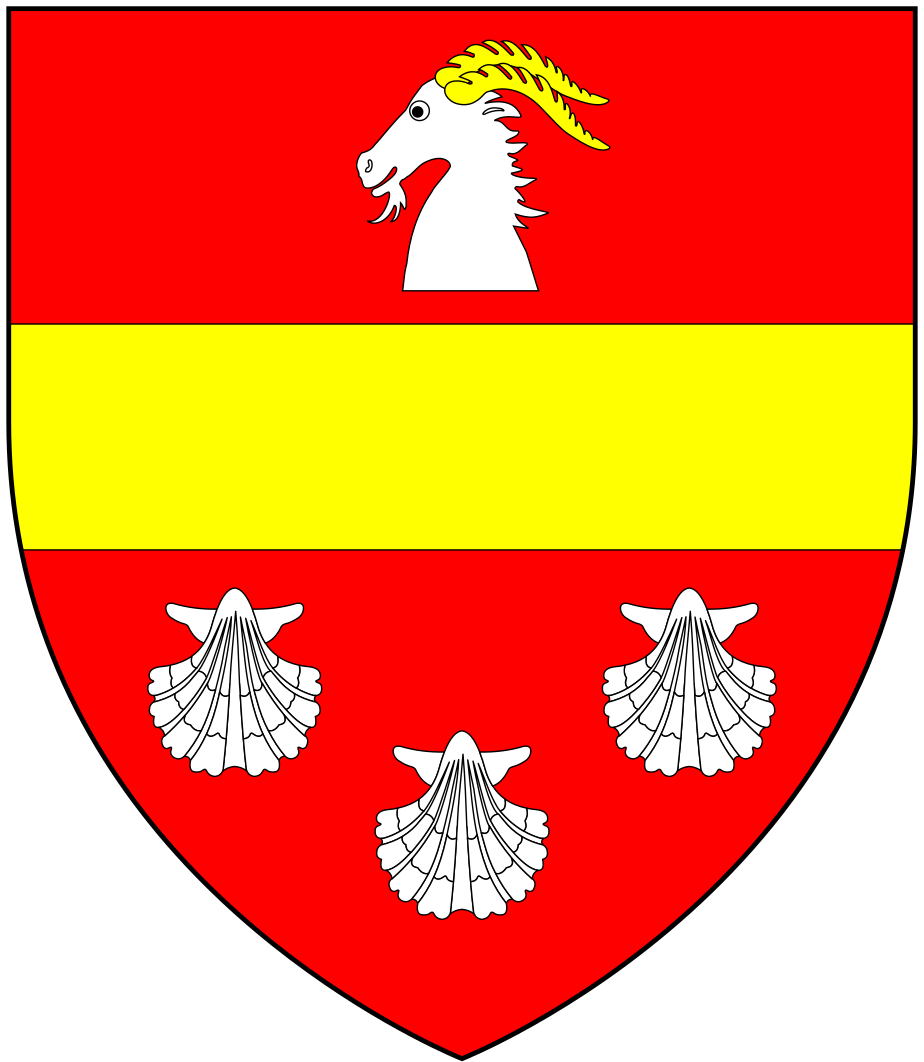 Arms of Warham: Gules, a fess or in chief a goat's head couped argent attired or in base three escallops two and one of the third. As seen on monument to William Warham, Archbishop of Canterbury, in Canterbury Cathedral (repainted shields ). (Burke's General Armory, with erased corrected to couped, and as blasoned by Robson, Thomas, The British Herald[1])